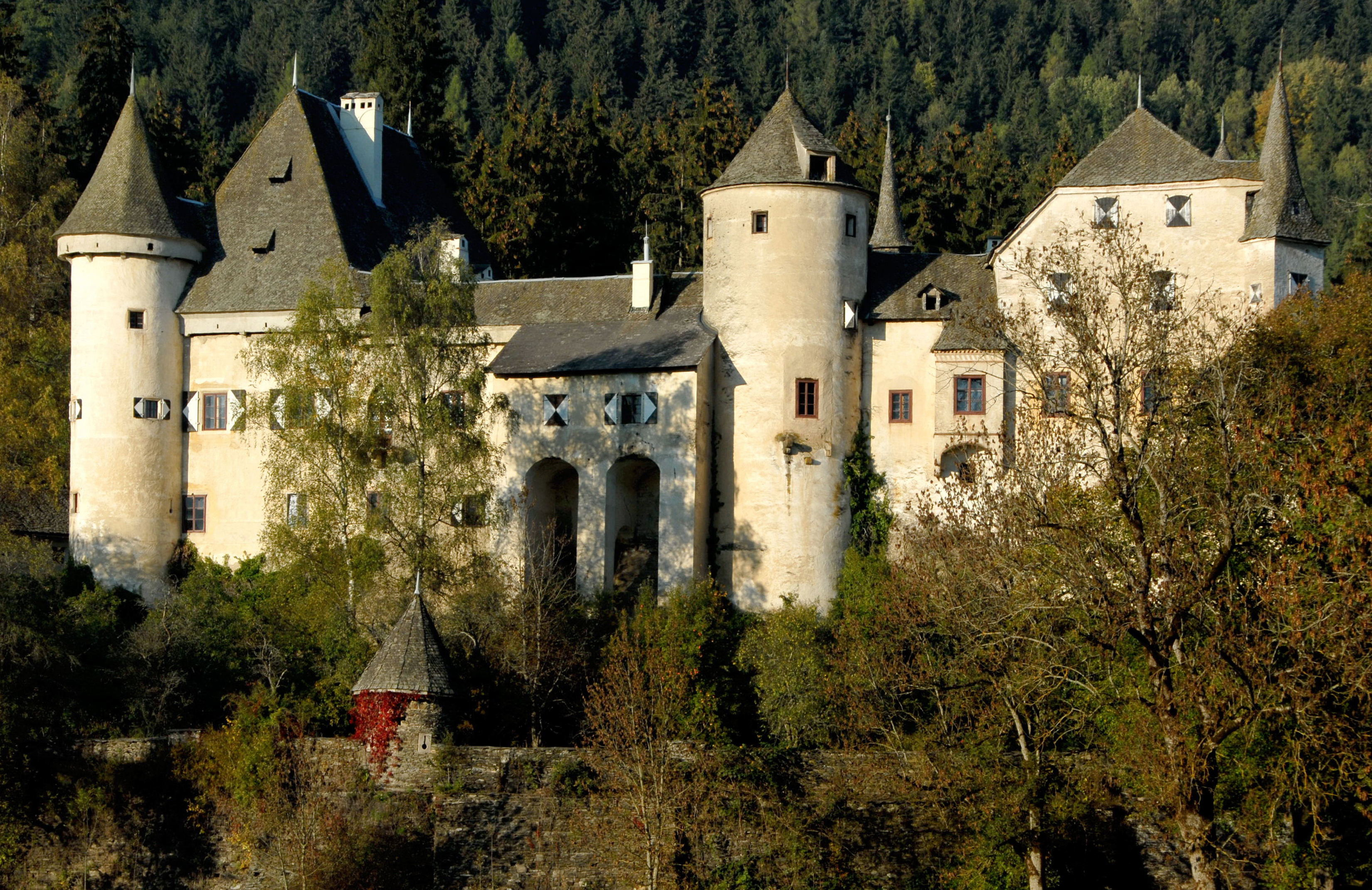 Castle Frauenstein, municipality Frauenstein, district Sankt Veit an der Glan, Carinthia, Austria, EU